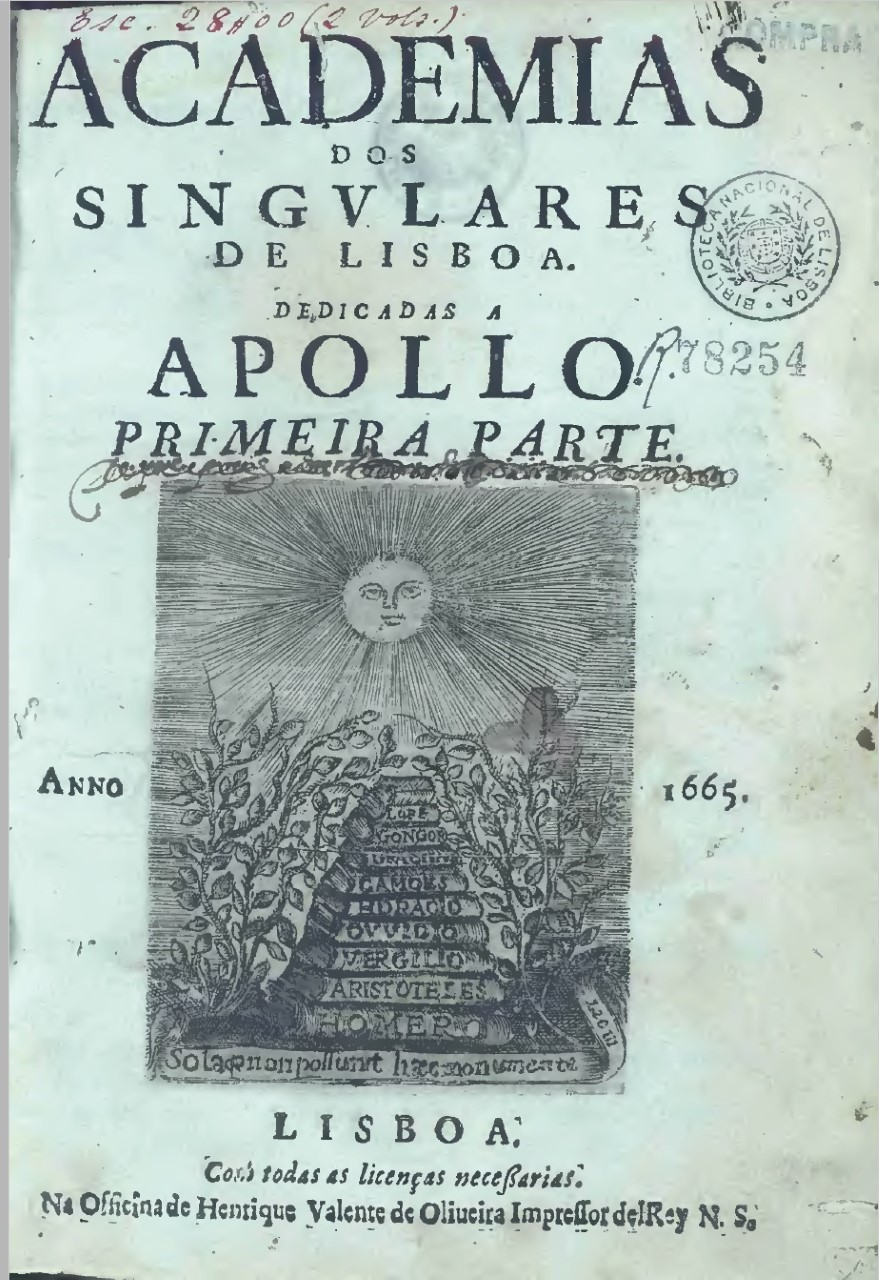 Title page of "Academias dos Singulares de Lisboa. Dedicadas a Apollo"... - Lisboa : na Officina de Manoel Lopes Ferreyra & à sua custa, 1692-1698.